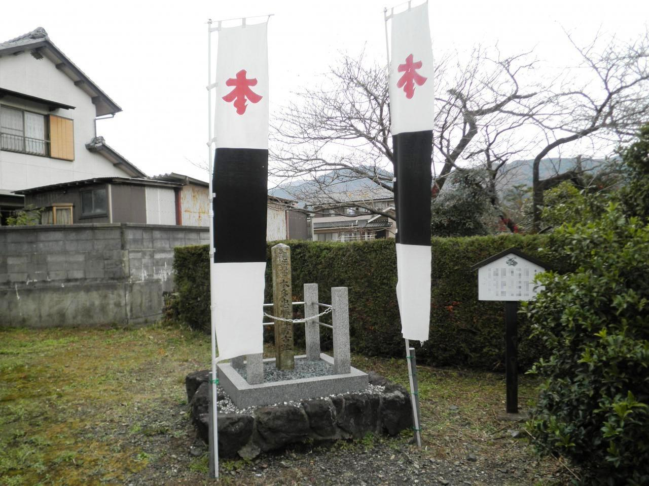 Site of Honda Tadakatsu's Position in the Battle of Sekigahara.